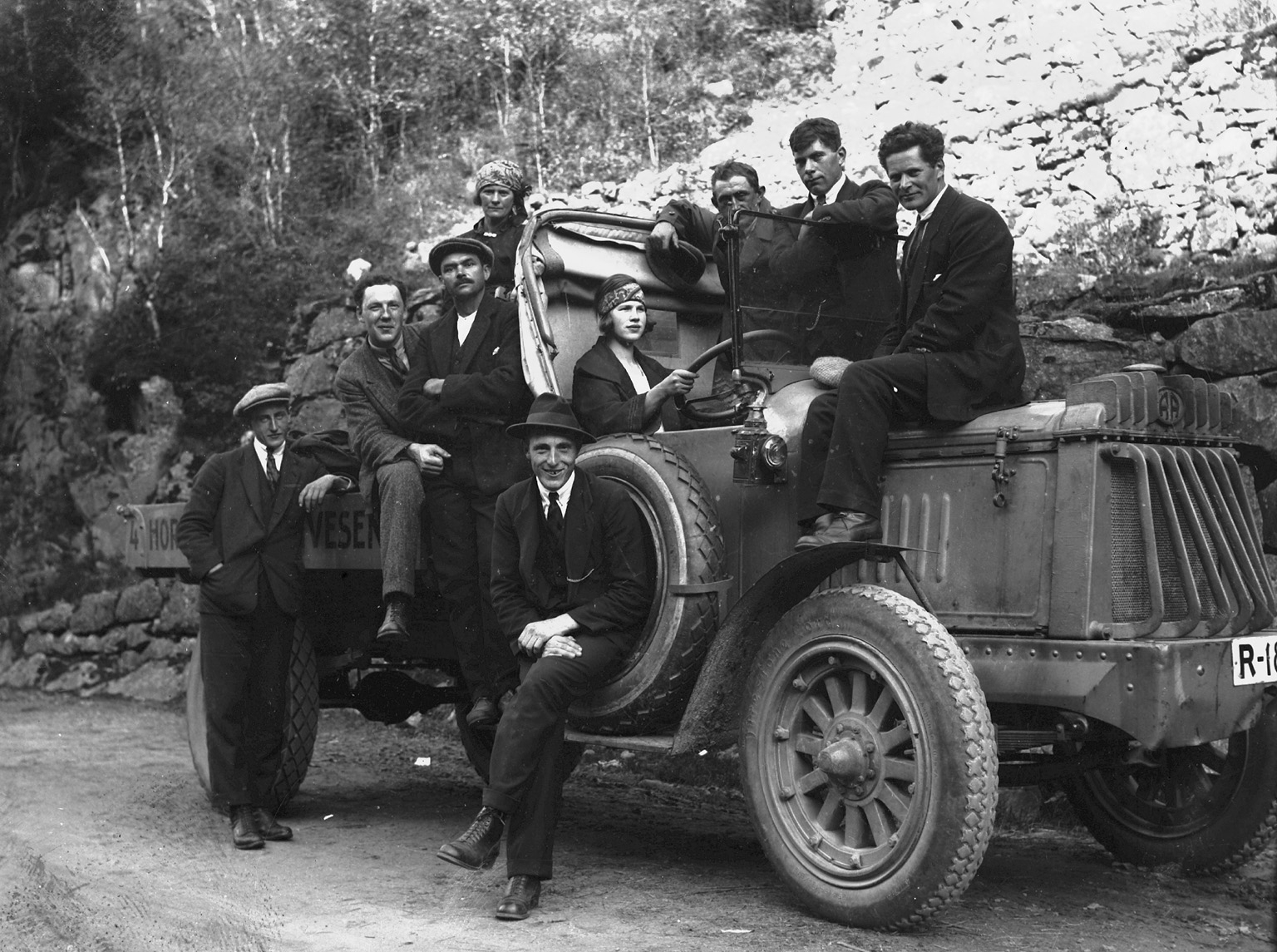 People (from left): Trygve Eide, Sjur Mannsåker, Daniel Vintertun, Ranveig A. Eide, NN, frk Augestad, Torgils Eide, Asbjørn A. Eide, Odd A. Eide. Truck is an "All-American", built in Chicago 1918–1923, owned by Hordaland Veivesen (federal civil engineering division), license nr. R-145.